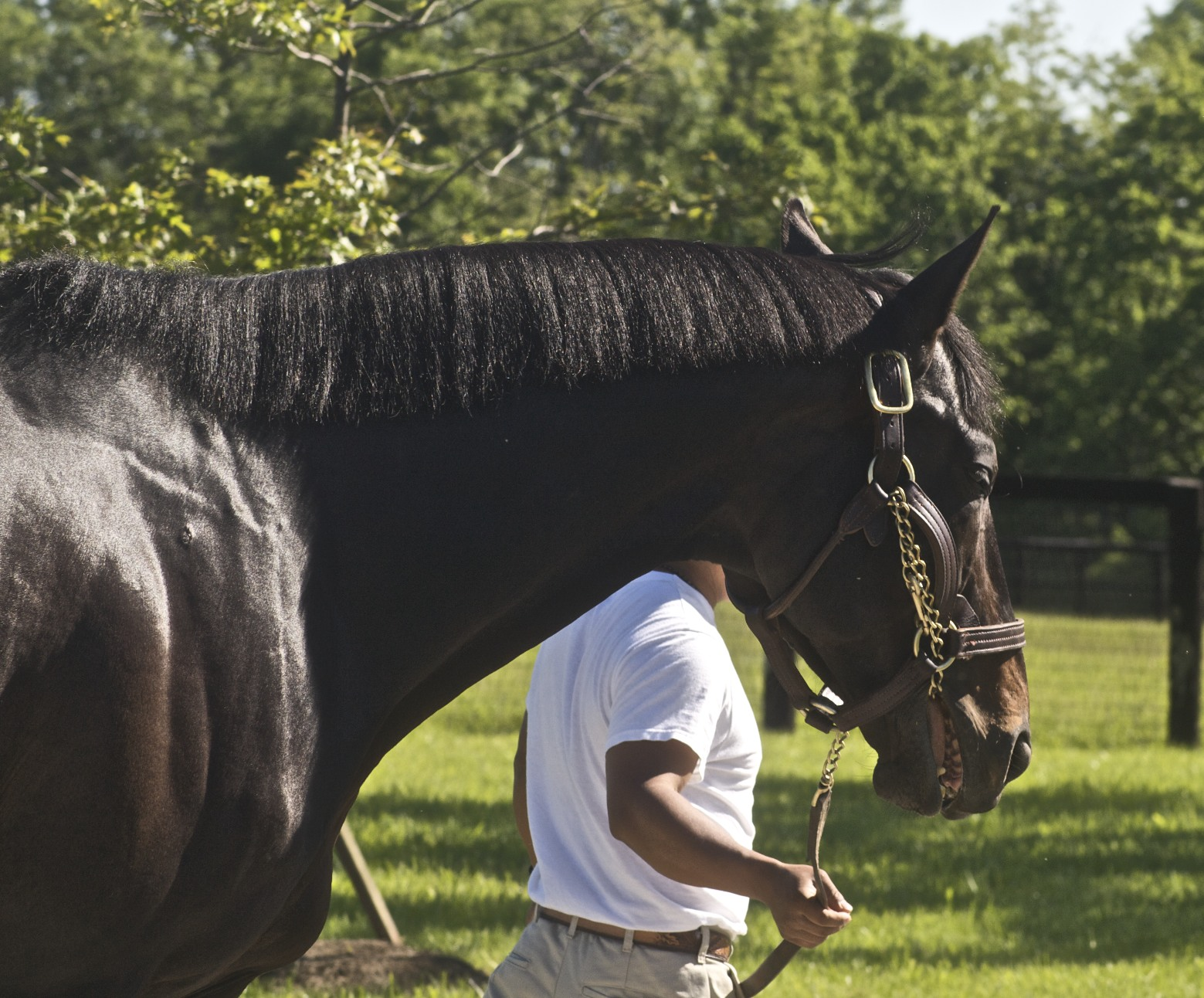 Thorougbred